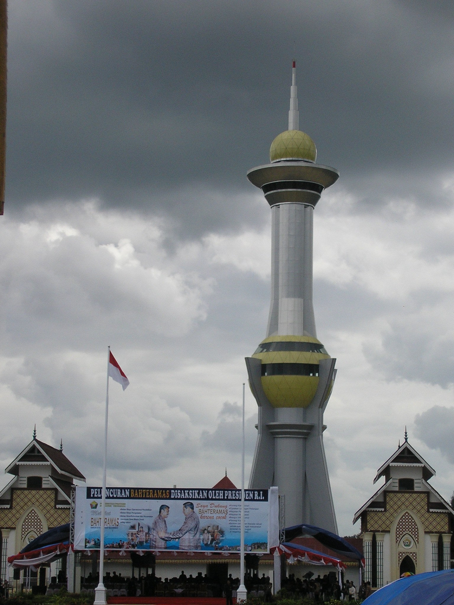 The Development Tower (Unity Tower)in Kendari, South East Sulawesi.